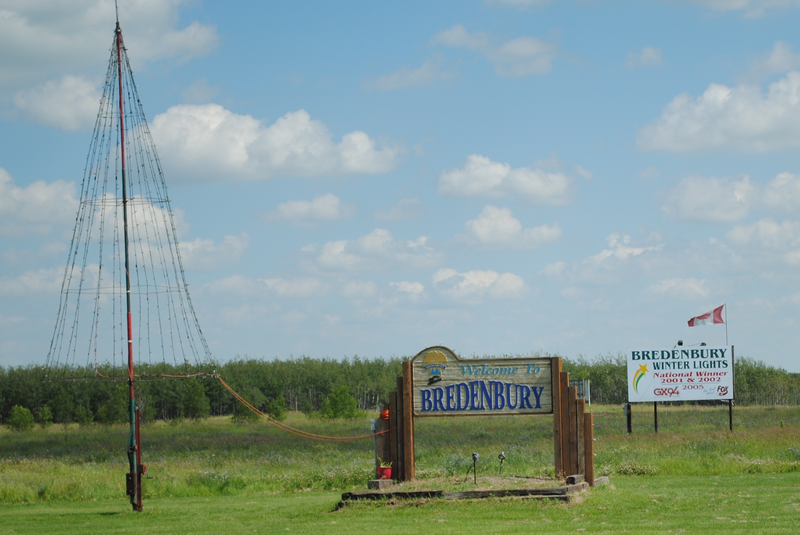 Signs and Christmas tree near the east entrance to Bredenbury, Saskatchewan just off Highway 16.